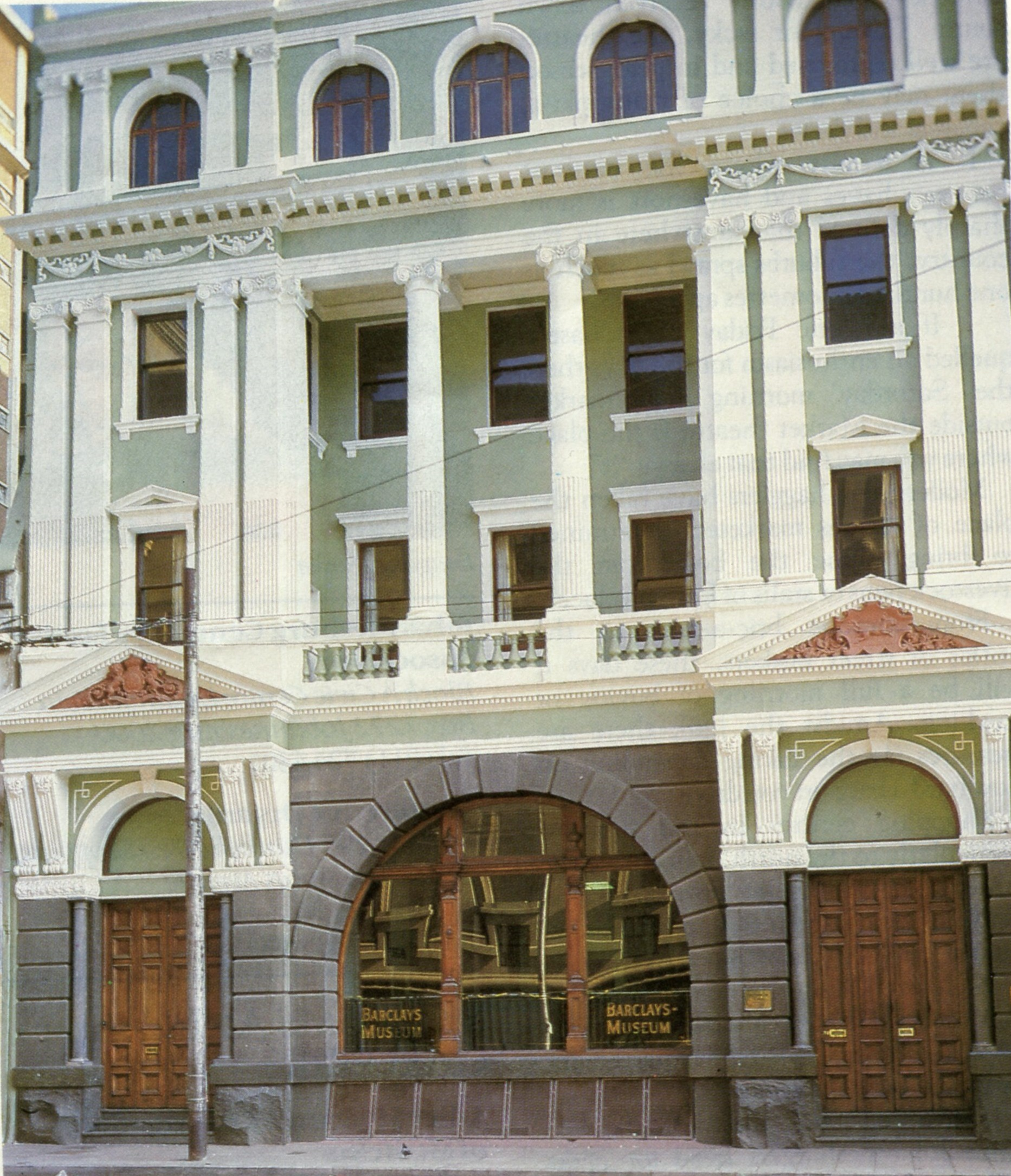 The Natal bank building was built in 1902 in Johannesburg. This is part of the archived works from the Johannesburg Heritage Foundation to be used under a free license in Wiki commons and its other projects